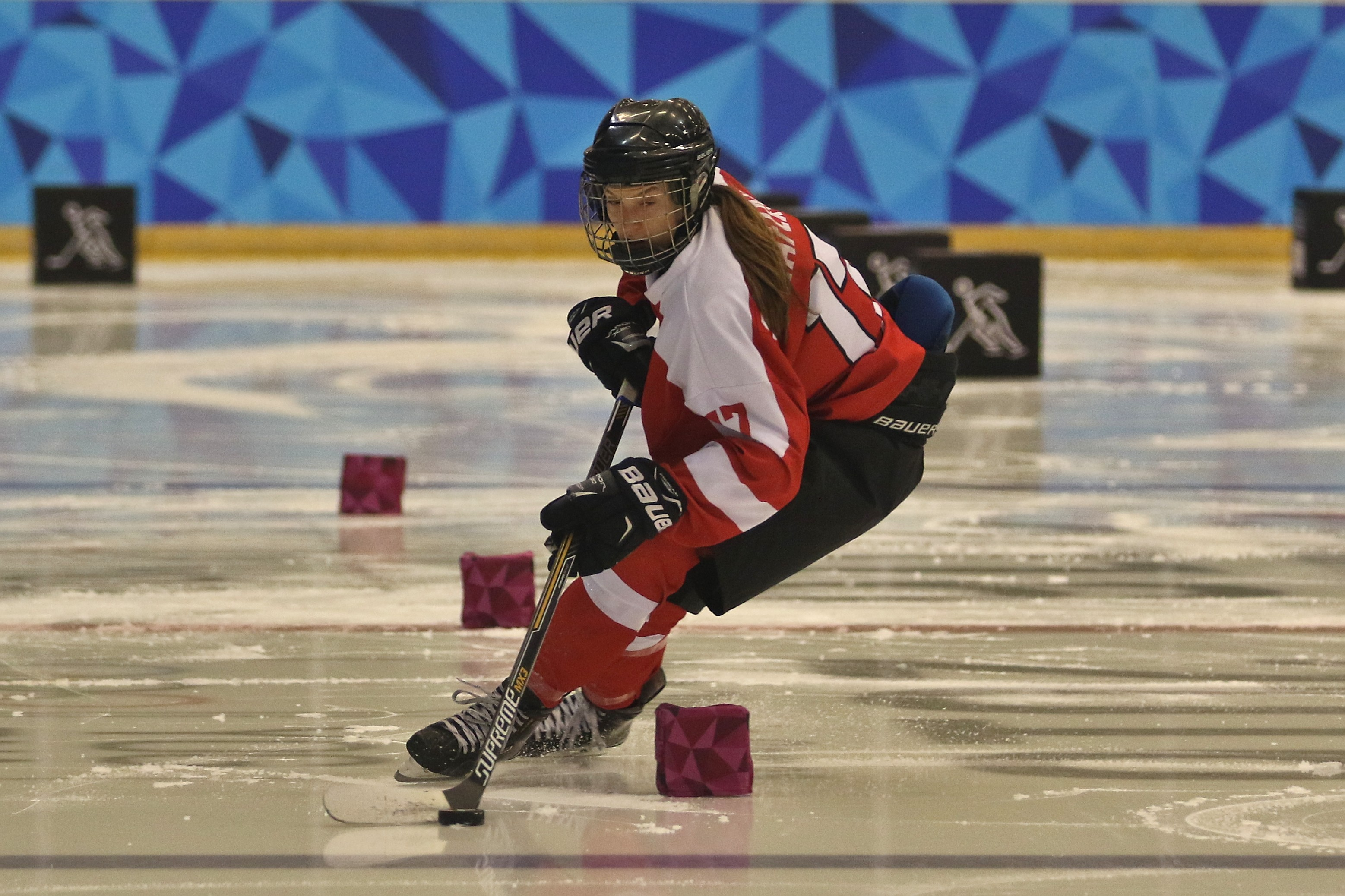 Lillehammer 2016 Hockey skills women - SCHAFZAHL Theresa (Austria)